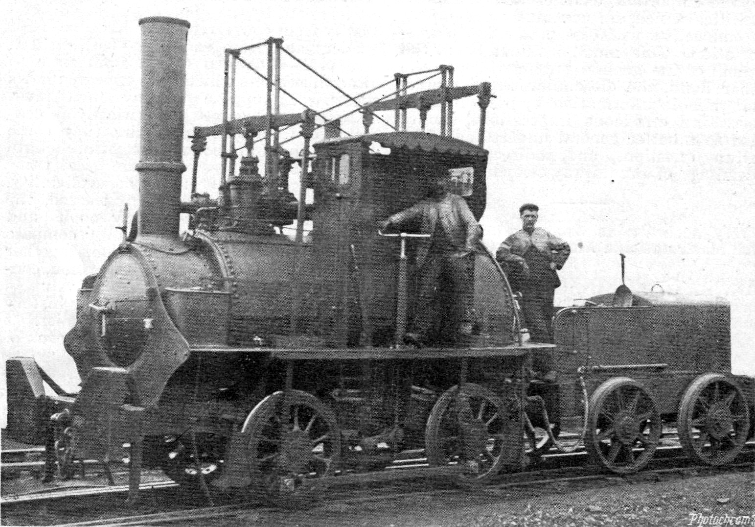 83 Years Old and Still 'In Harness' The above engine was constructed in 1822 and is at the present time at work in the County of Durham.